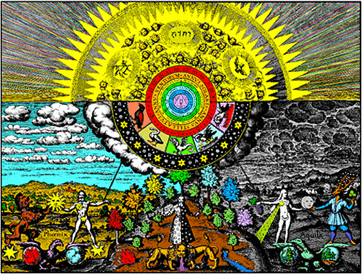 "Macrocosm and microcosm", engraving attached to Basilica Philosophica, third volume of Johann Daniel Mylius’ Opus Medico-Chymicum, Frankfurt